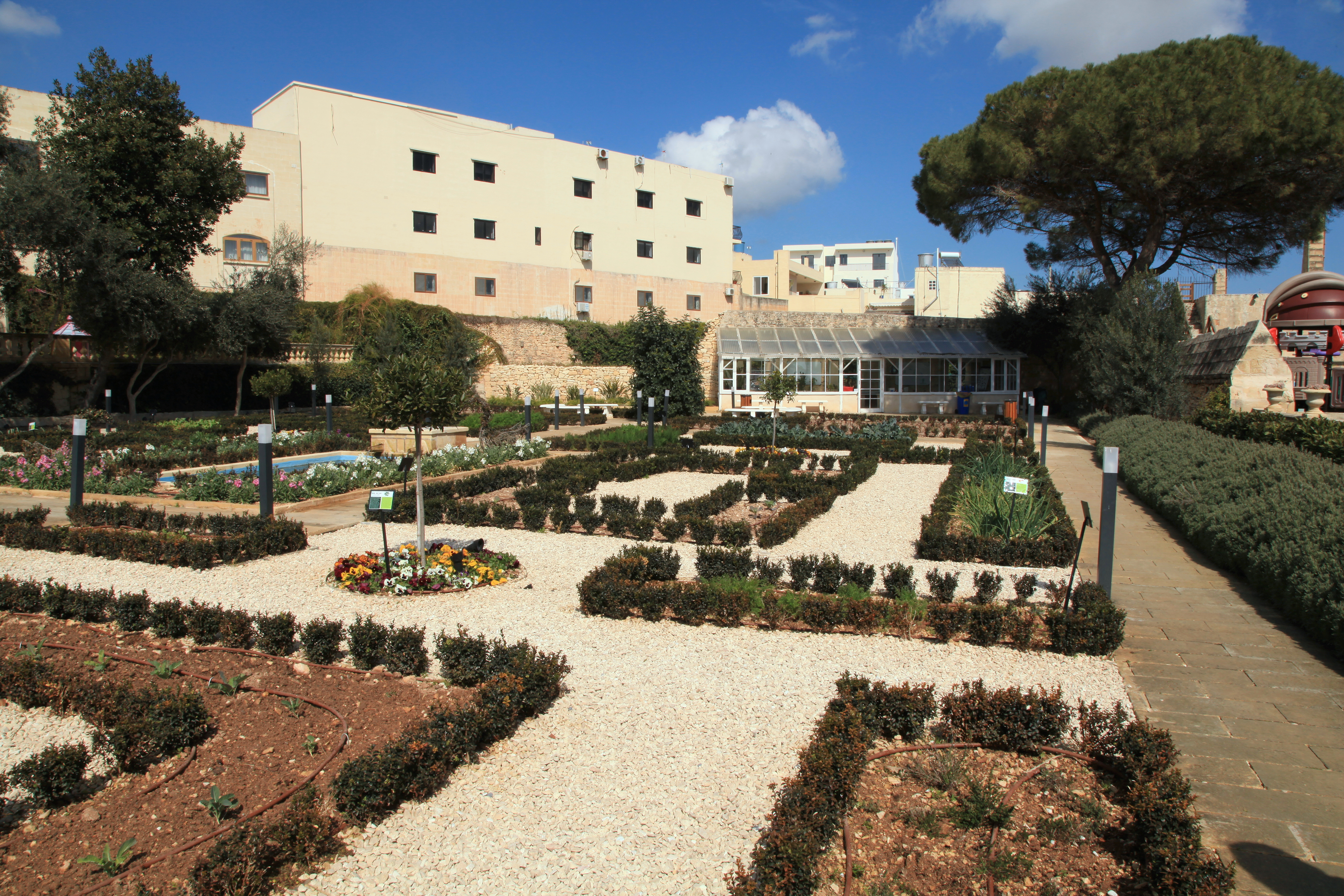 The President's Kitchen Garden (of San Anton Palace), Triq Sant Antnin in Attard, Malta